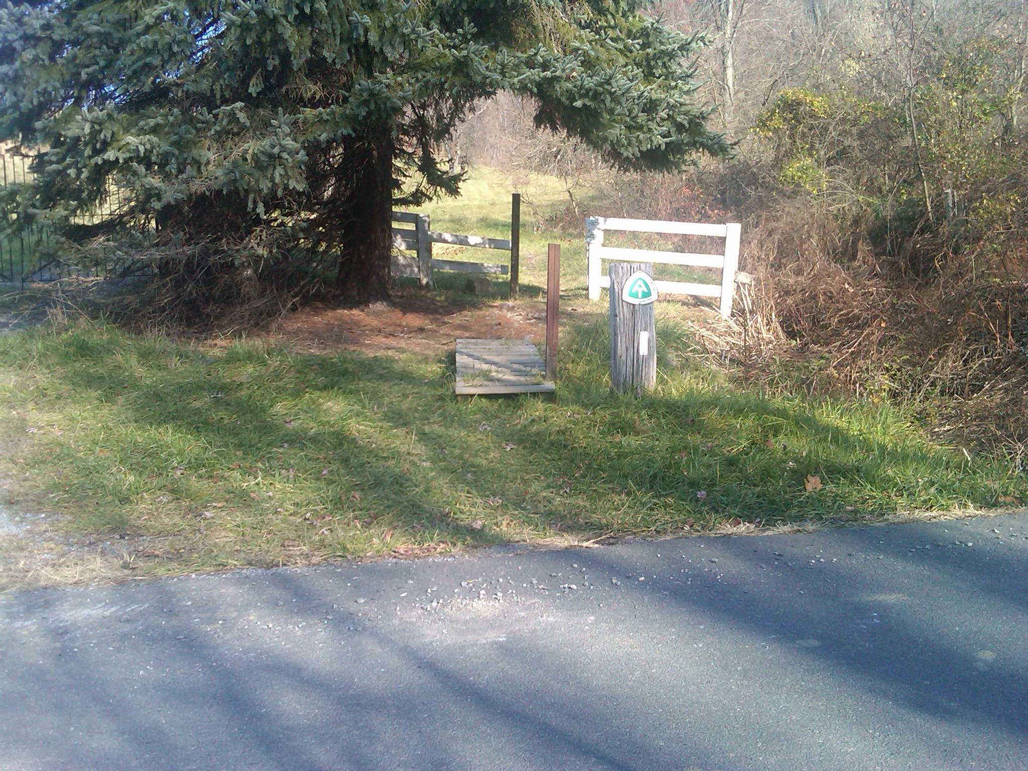 one of mutiple Appalachian trail access points in Linden, VA